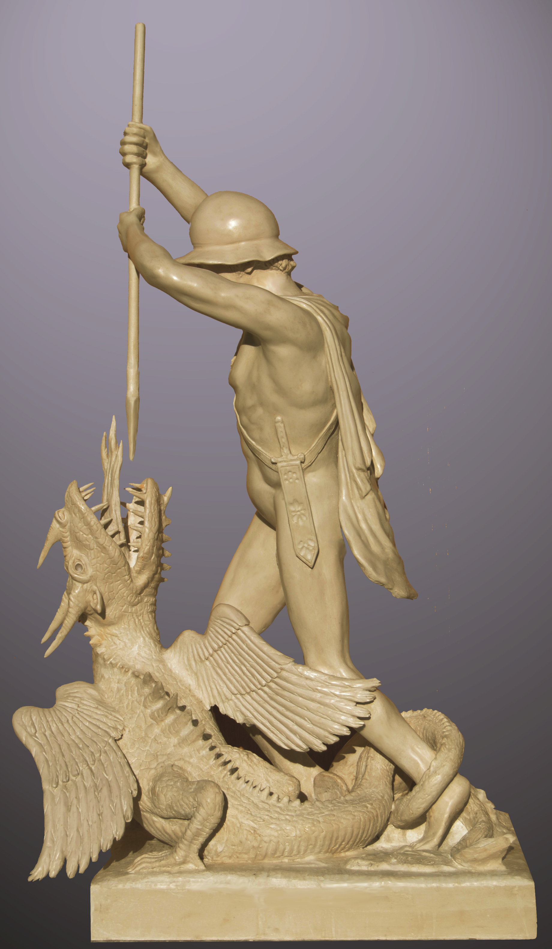 Sculpture in synthetic marble work of José Manuel Félix Magdalena